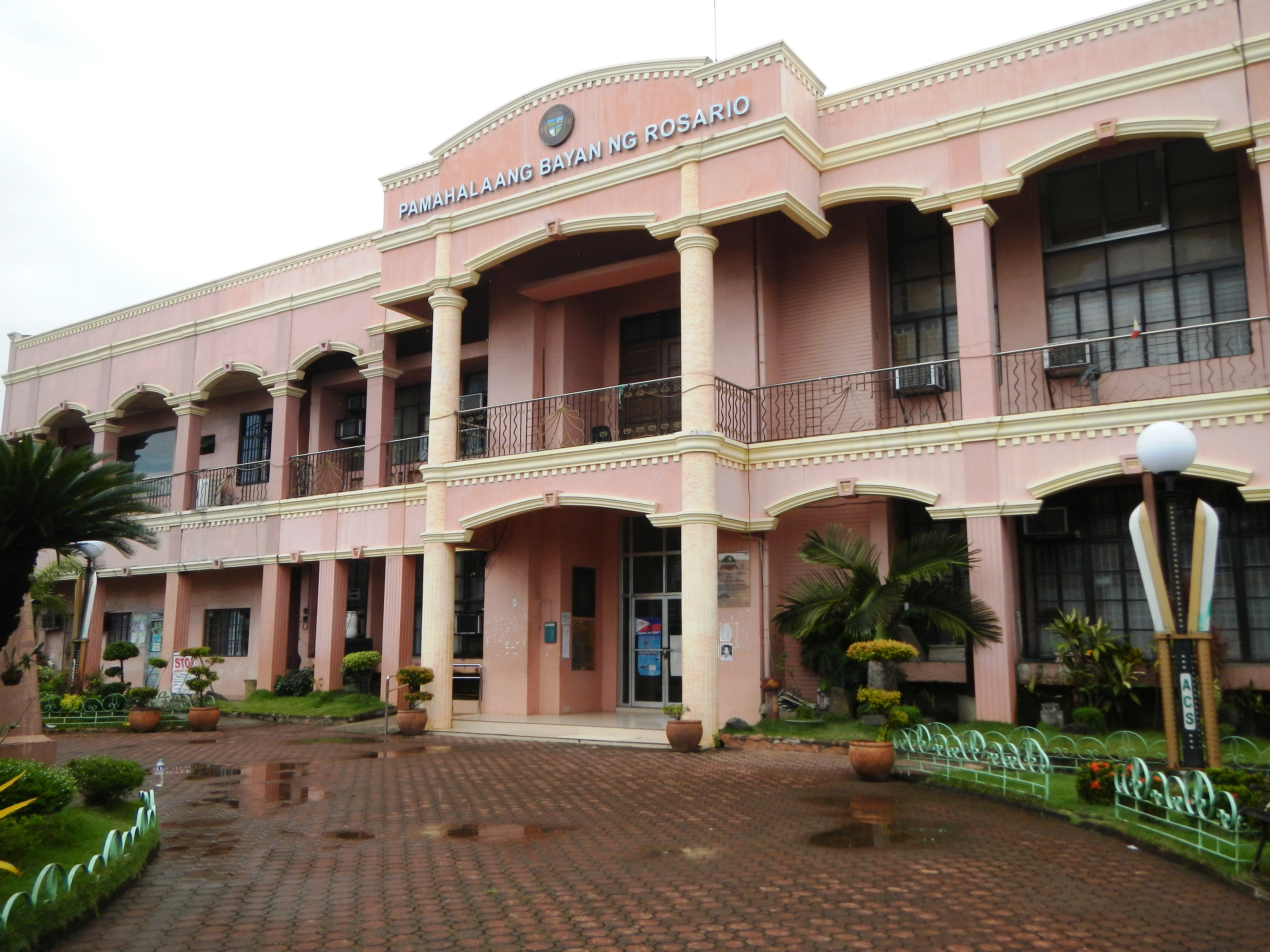 Upload Wizard photos of - Rosario Municipal Hall, Poblacion Rosario, Town Proper, [1] Coordinates: 13°50'44"N 121°12'22"E - Rosario, Batangas [2] (a 1st class municipality in the province of Batangas, Philippines; 2000 census, population of 86,110 people in 16,288 households).[3] Website [4] - Aksyon ng Bayan Rosario 2001 And Beyond [5] [6] - (Aksyon ng Bayan Rosario 2001 And Beyond Human and Ecological Security Plan evolved by Executive Order No. 98-02, October 5, 1998 by Mayor Rodolfo Guerra Villar of Rosario, Batangas in compliance with 1992 Earth Summit in Rio de Janeiro.[7] and Metropolitan Cathedral of Saint Sebastian of Lipa City - San Sebastian Cathedral CM Recto Ave., Poblacion, Lipa City, Batangas, Philippines[8]Metro Lipa Cathedral Its first grand concept was completed in 1865 but, after the devastation of WWII, it underwent massive reconstruction.circular dome, massive walls and balconies,Coordinates: 13°56'27"N 121°9'48"E[9]Administered by the Augustinians beginning April 30, 1605 (and until the end of the 19th century) under the name “Convent of San Sebastian in Comintang” The church was totally completed from 1865 to 1894 during the administration of Fray Benito Baras to whom Lipeños attribute their religiosity.[10]Metropolitan Archbishop: Archbishop Ramon Cabrera Argüelles Lipa City, Batangas[11].